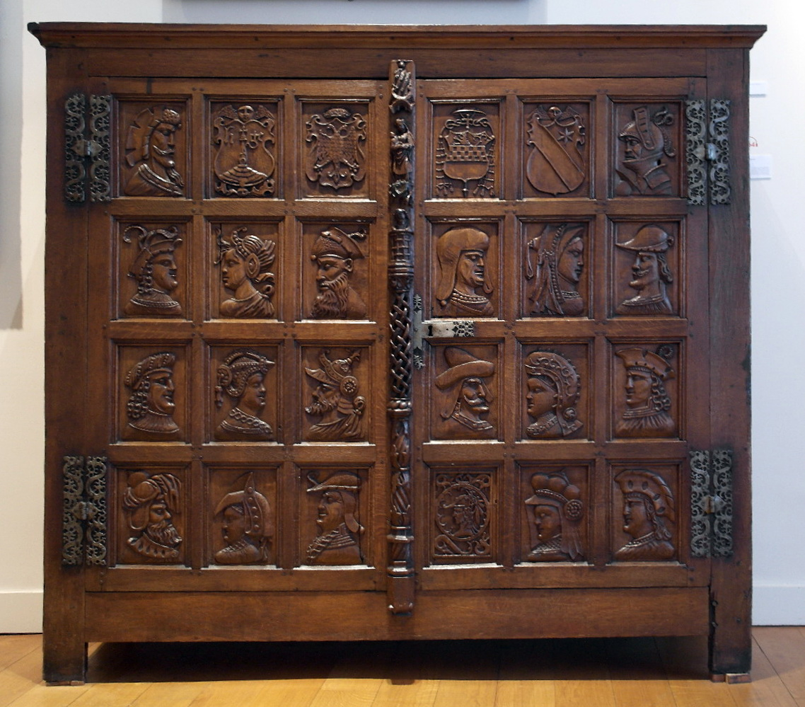 Liège, Belgium, Grand Curtius Museum. Early 16th-century oak wooden chest with portraits in relief and coats of arms of prince-bishop Érard de la Marck and the Donceel family, probably the owners of the chest.